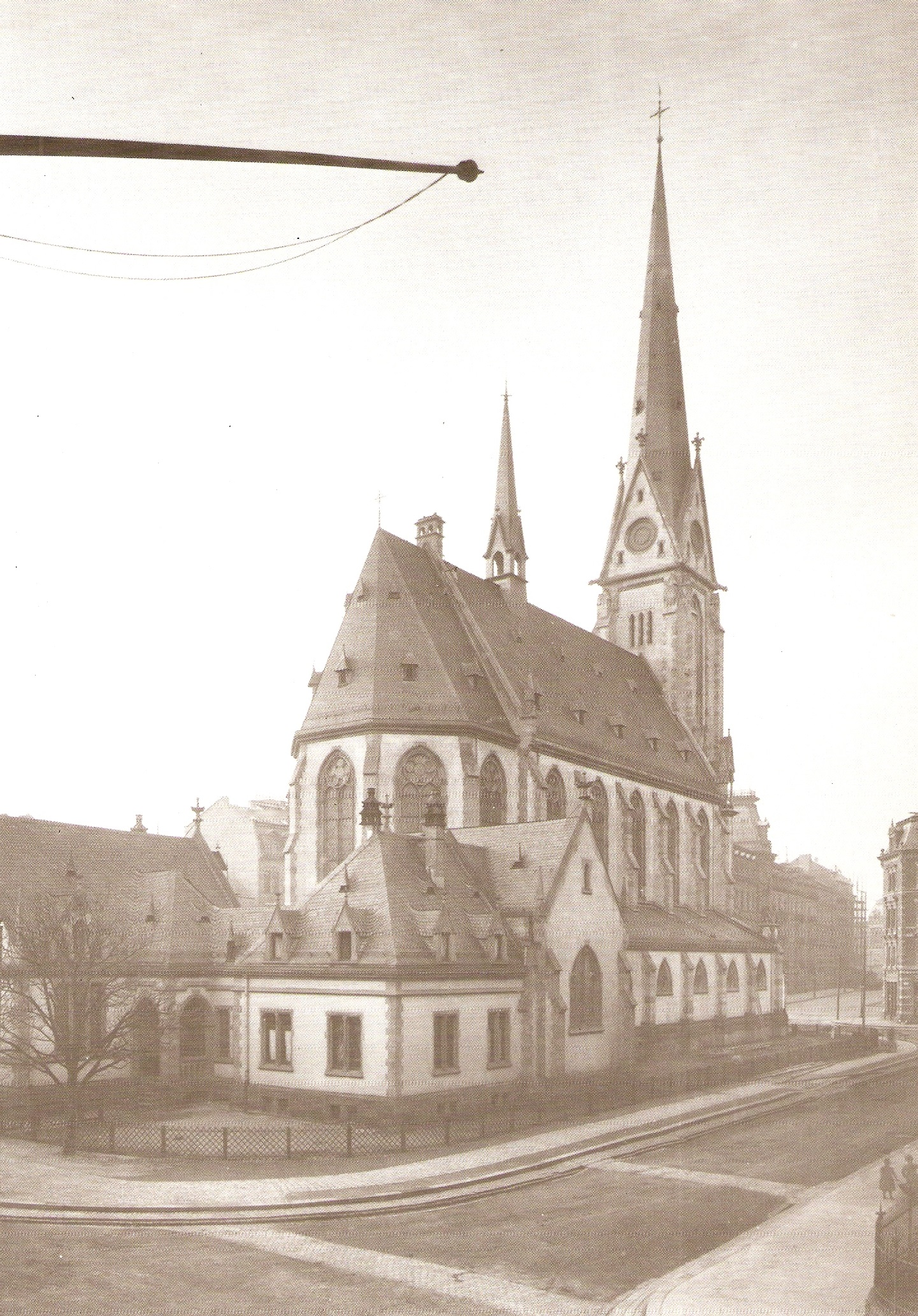 Mainz St. Bonifatius